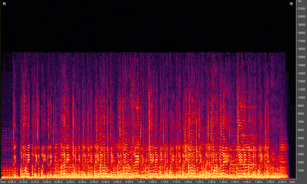 spectral analyses of a mp3 file